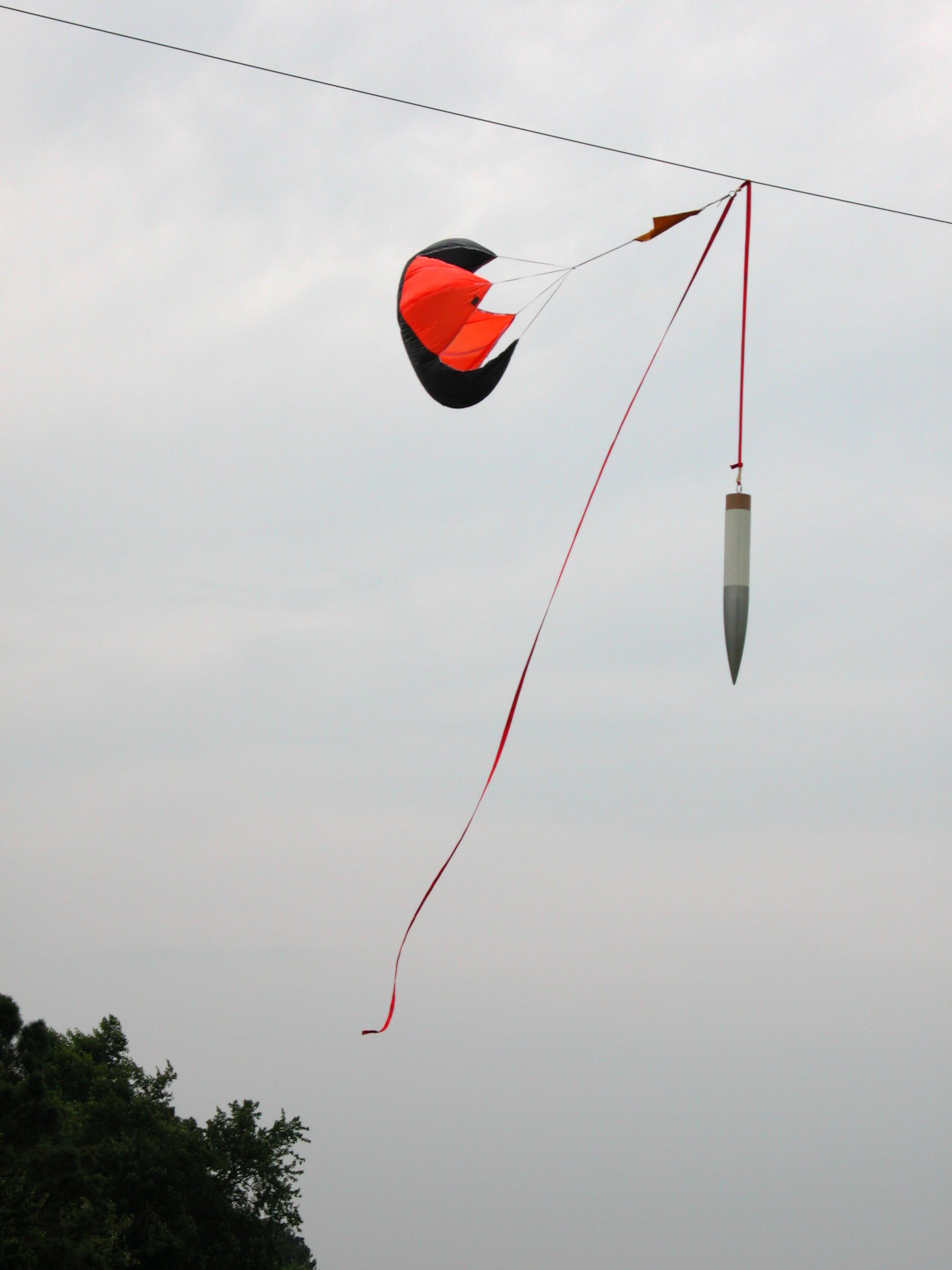 The parachute of a model rocket caught on a wire during a launch event at a cow pasture in Whitakers, North Carolina.